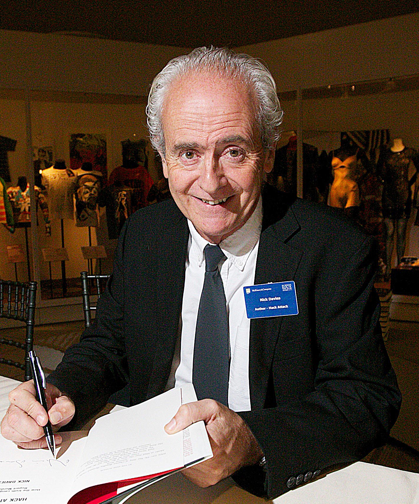 Nick Davies, author of Hack Attack, at the Financial Times Business Book of the Year award 2014 at the V&A